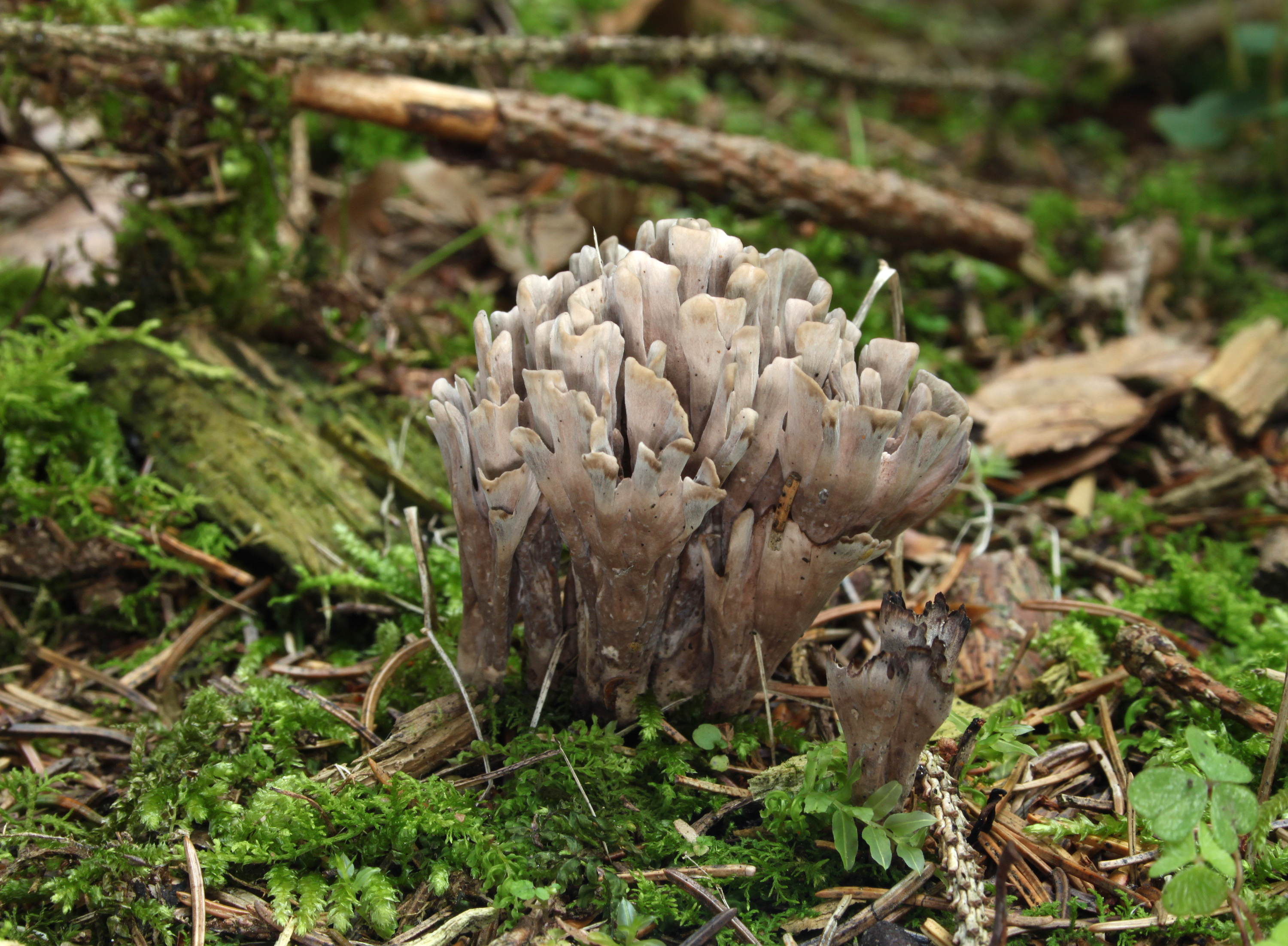 Stinking Earthfan Thelephora palmata, Family: Thelephoraceae, Location: Germany, Ulm, Eggingen